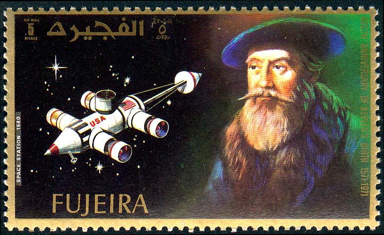 Airmail postage stamp of Fujeira (UAE), Johannes Kepler`s birthday 400th anniversary, 5 riyals, 1971